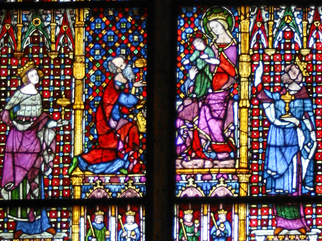 Cologne Cathedral, Germany. Detail of gothic stained glass window in chevet, elder "Dreikönigsfenster", created 1330-40.